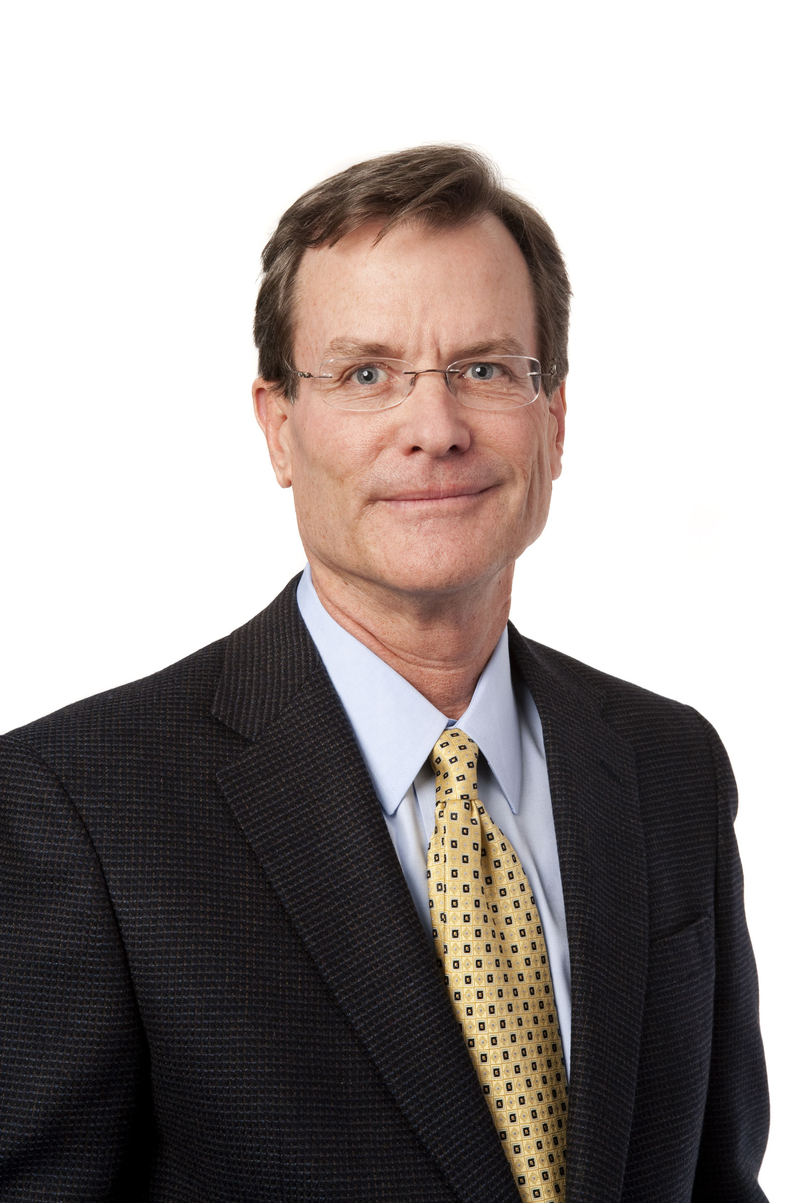 Robert W. Mendenhall, President Emeritus, Western Governors University